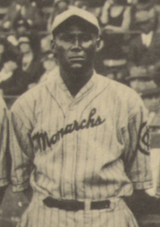 "William Bell at the 1924 Colored World Series. LOC states here that there are no restrictions on use of this image, therefore it is PD. This file has been extracted from another file: 1924 Negro League World Series.jpg